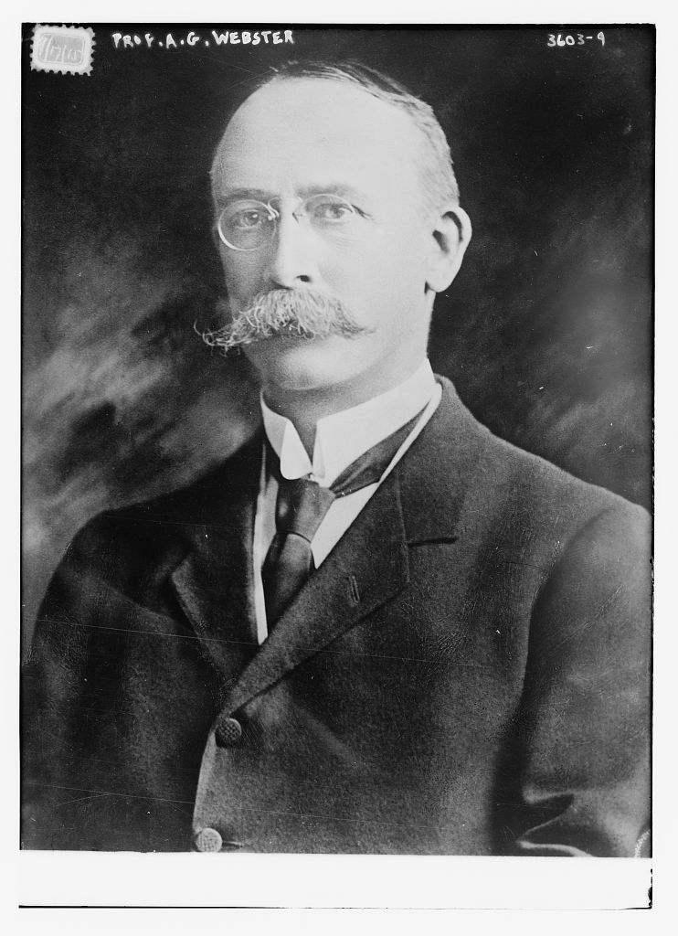 Arthur Gordon Webster circa 1915